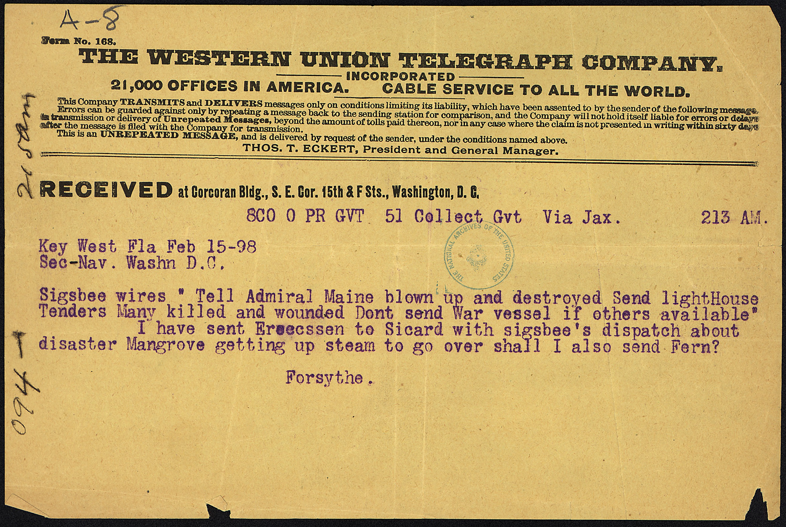 Scope and content: This telegram was sent by Captain James A. Forsythe, Commanding, Key West Naval Station, forwarding word from Charles S. Sigsbee, Captain, USS MAINE of the sinking of his ship.